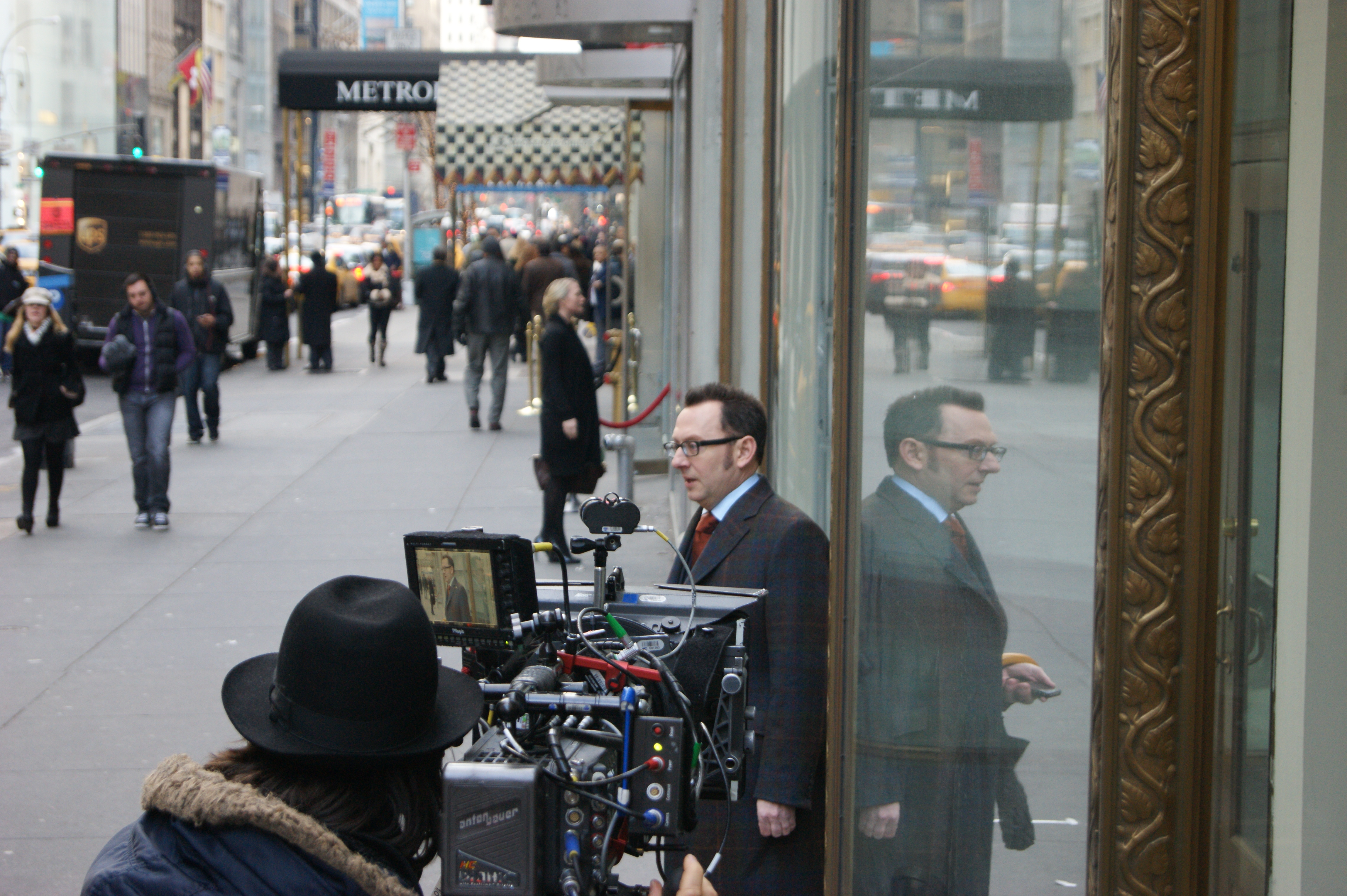 Michael Emerson in NYC shooting 'Person of Interest'